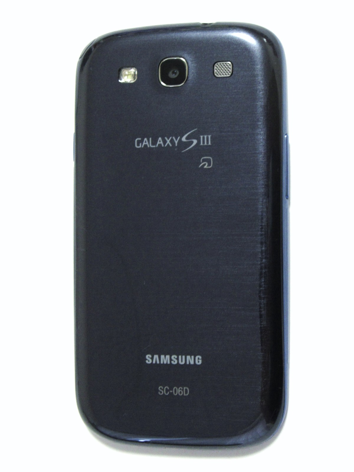 docomo GALAXY S III SC-06D (by Samsung Electronics).